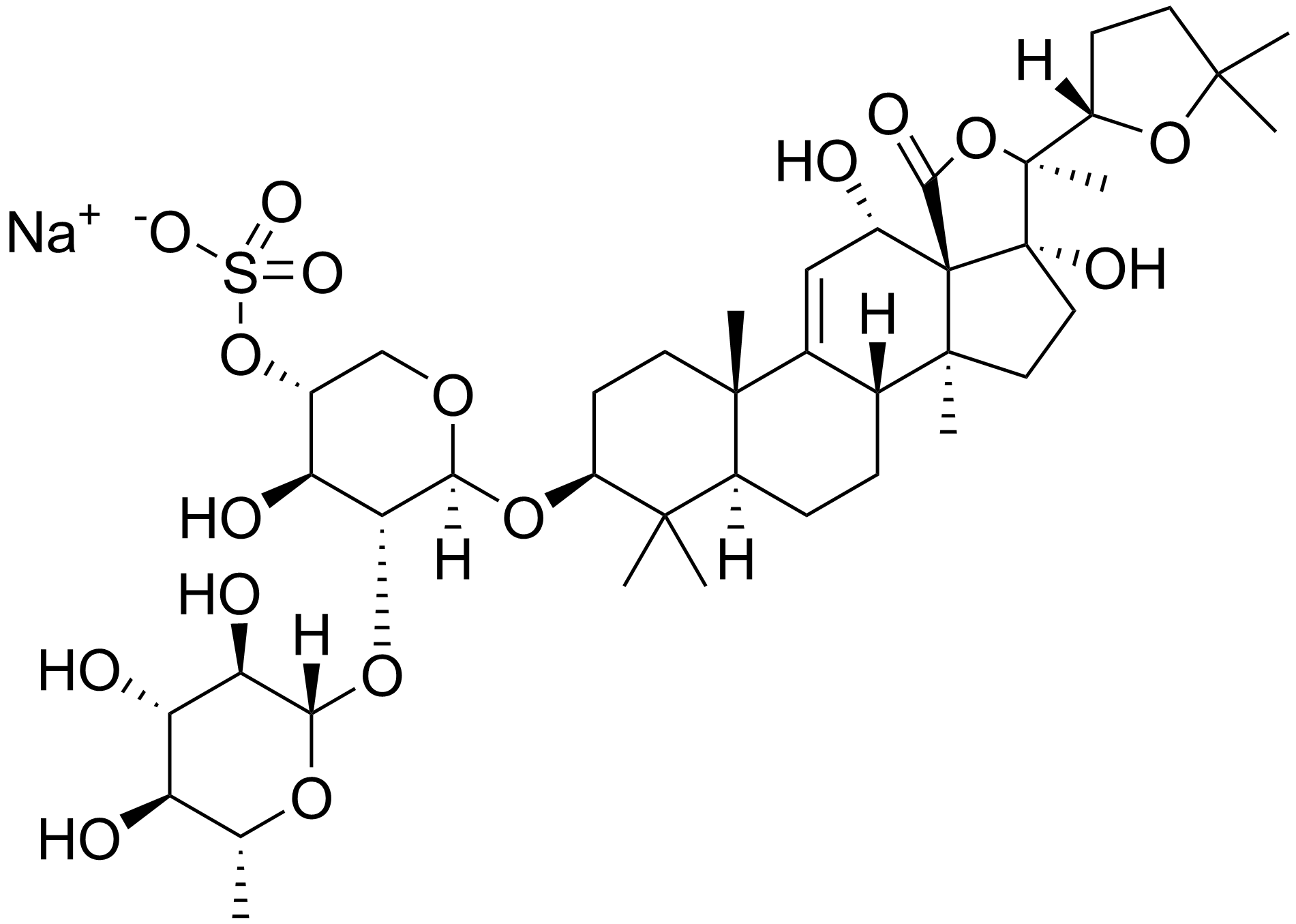 chemical structure of holothurin B